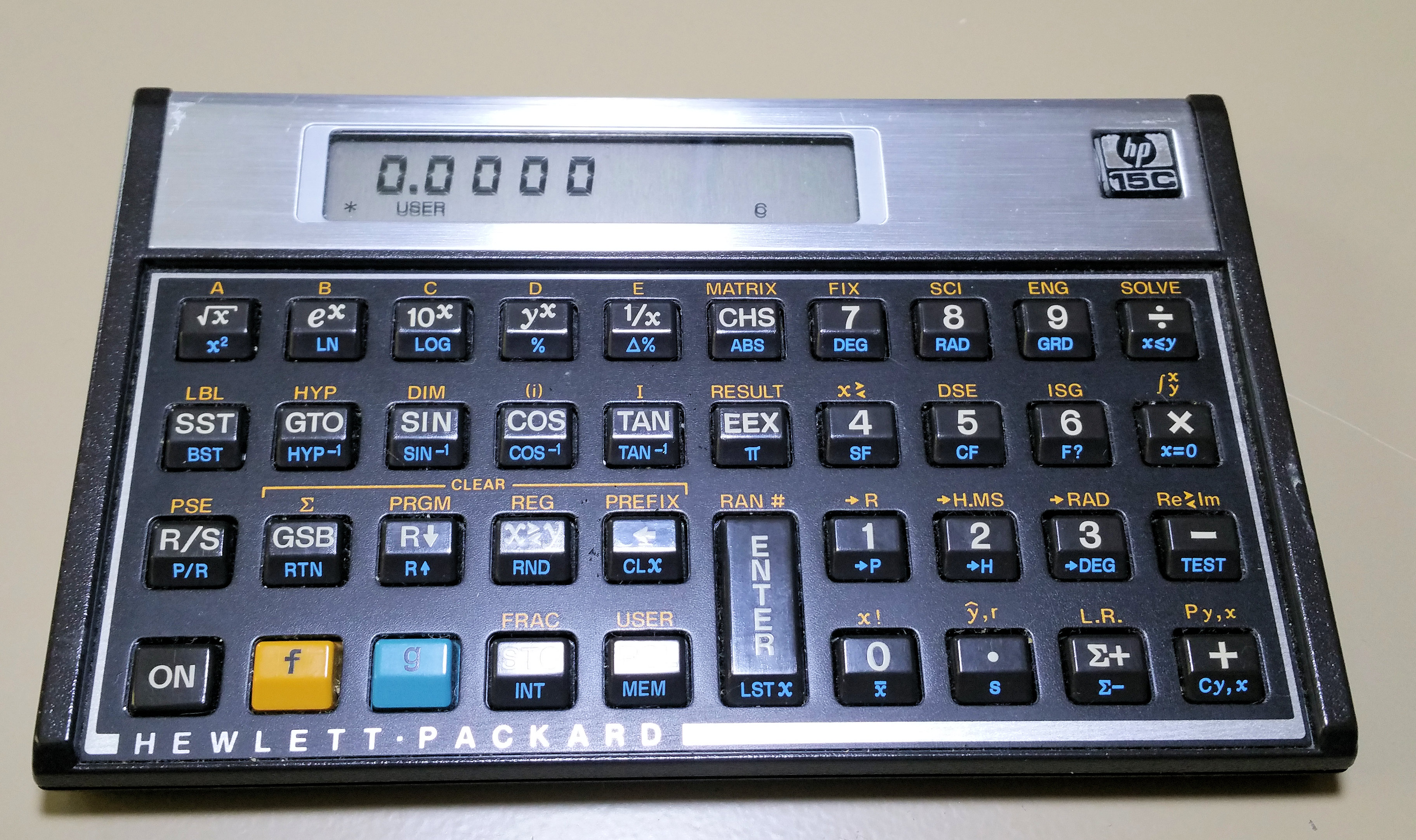 This calculator was part of my fathers engineering supplies from Magnavox.